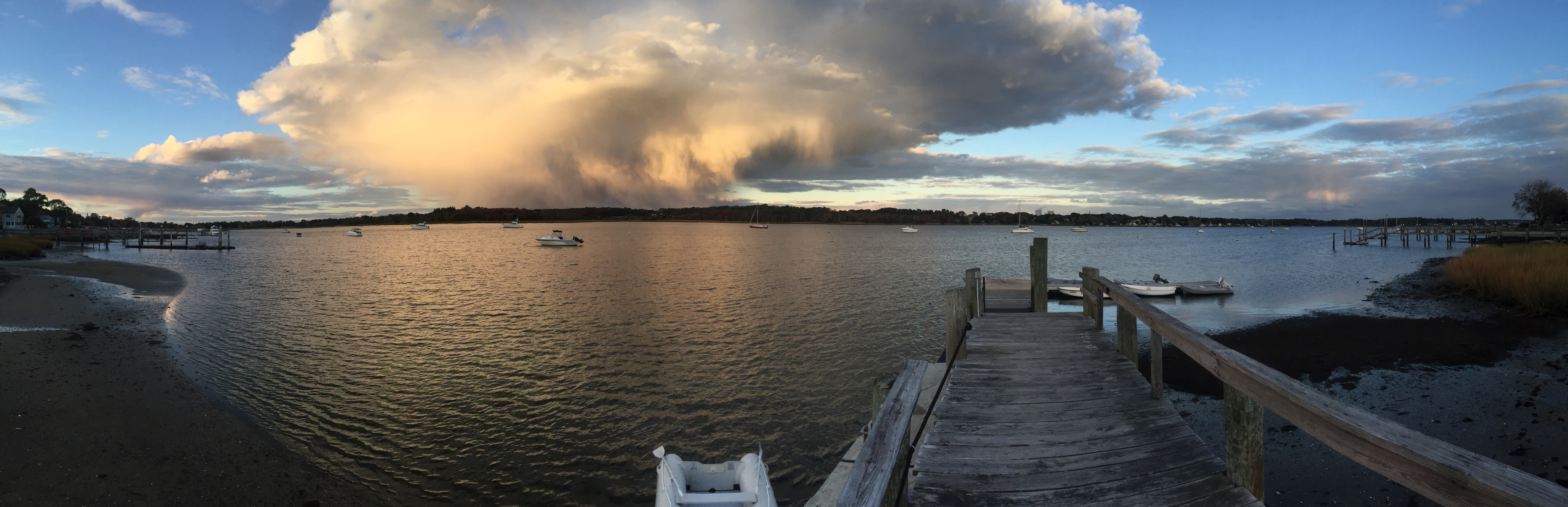 This is a panorama taken from the BAIA of a Fall snow squall.